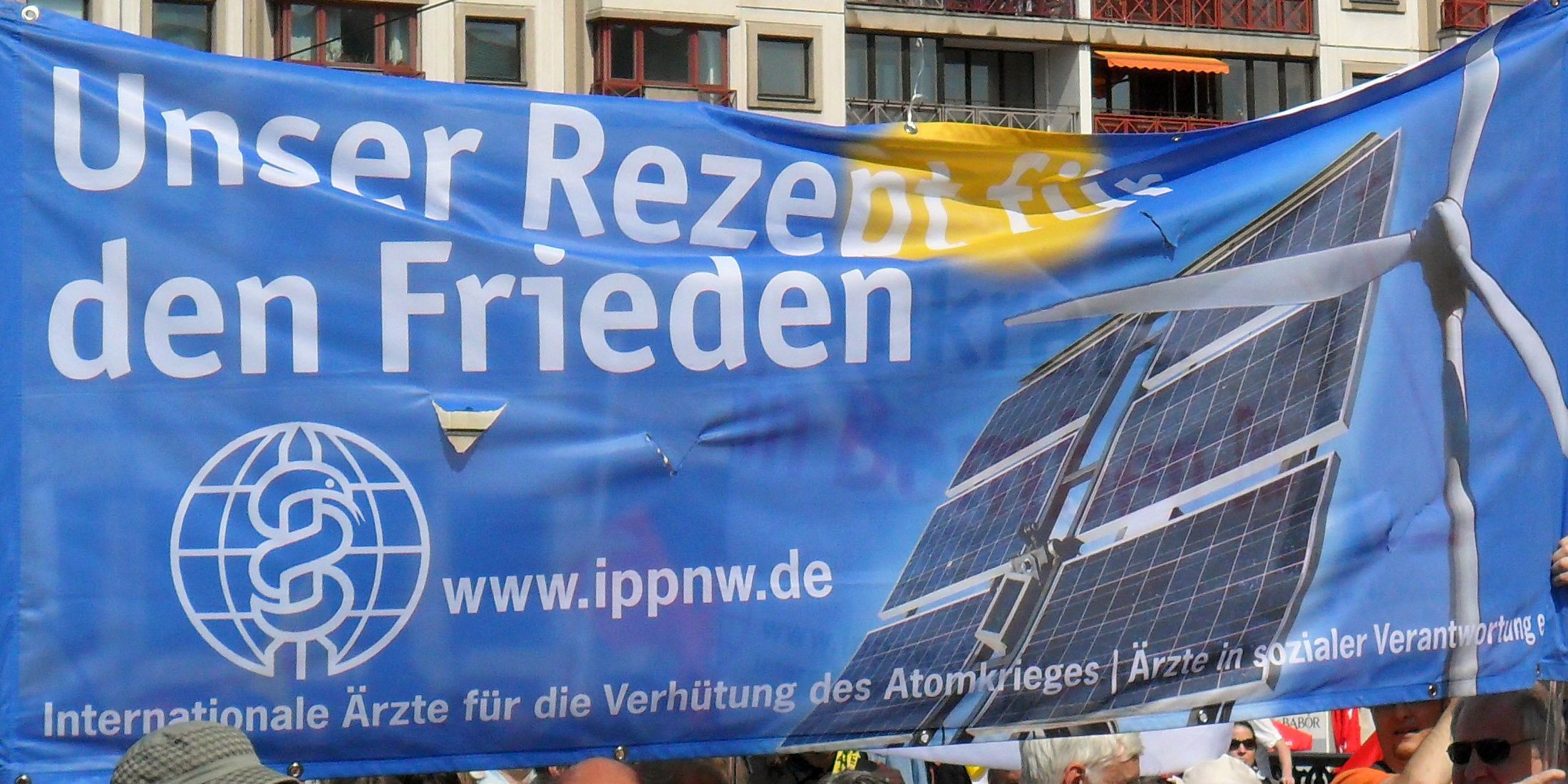 Banner from the International Physicians for the Prevention of Nuclear War (German Section: Internationale Ärzte für die Verhütung des Atomkrieges, Ärzte in sozialer Verantwortung e.V.) at the Aldermaston Marches 2011 in Berlin. Banner des Vereins Internationale Ärzte für die Verhütung des Atomkrieges, Ärzte in sozialer Verantwortung e.V. beim Ostermarsch 2011 in Berlin.